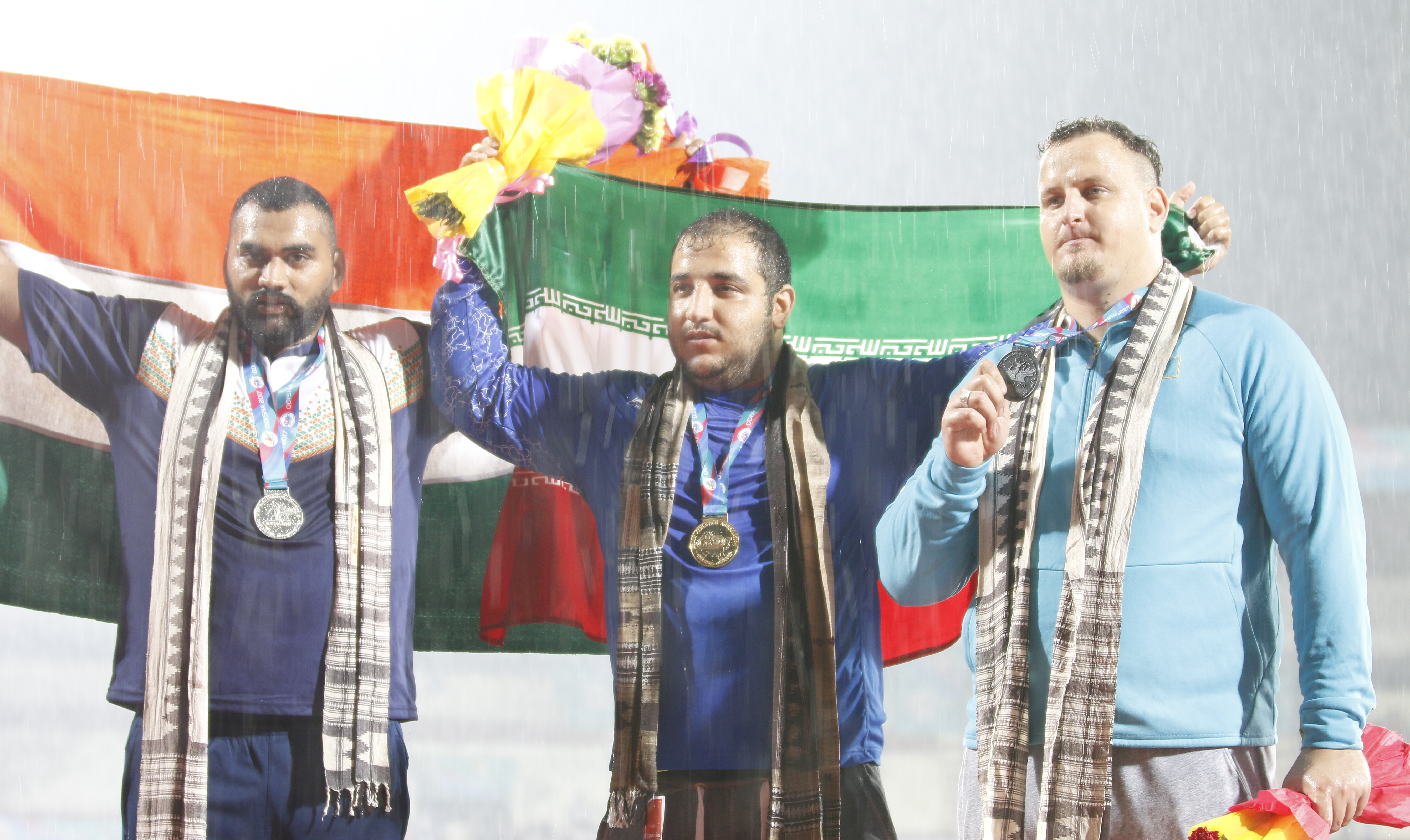 Athletes during 22nd Asian Athletics Championships in Bhubaneswar.